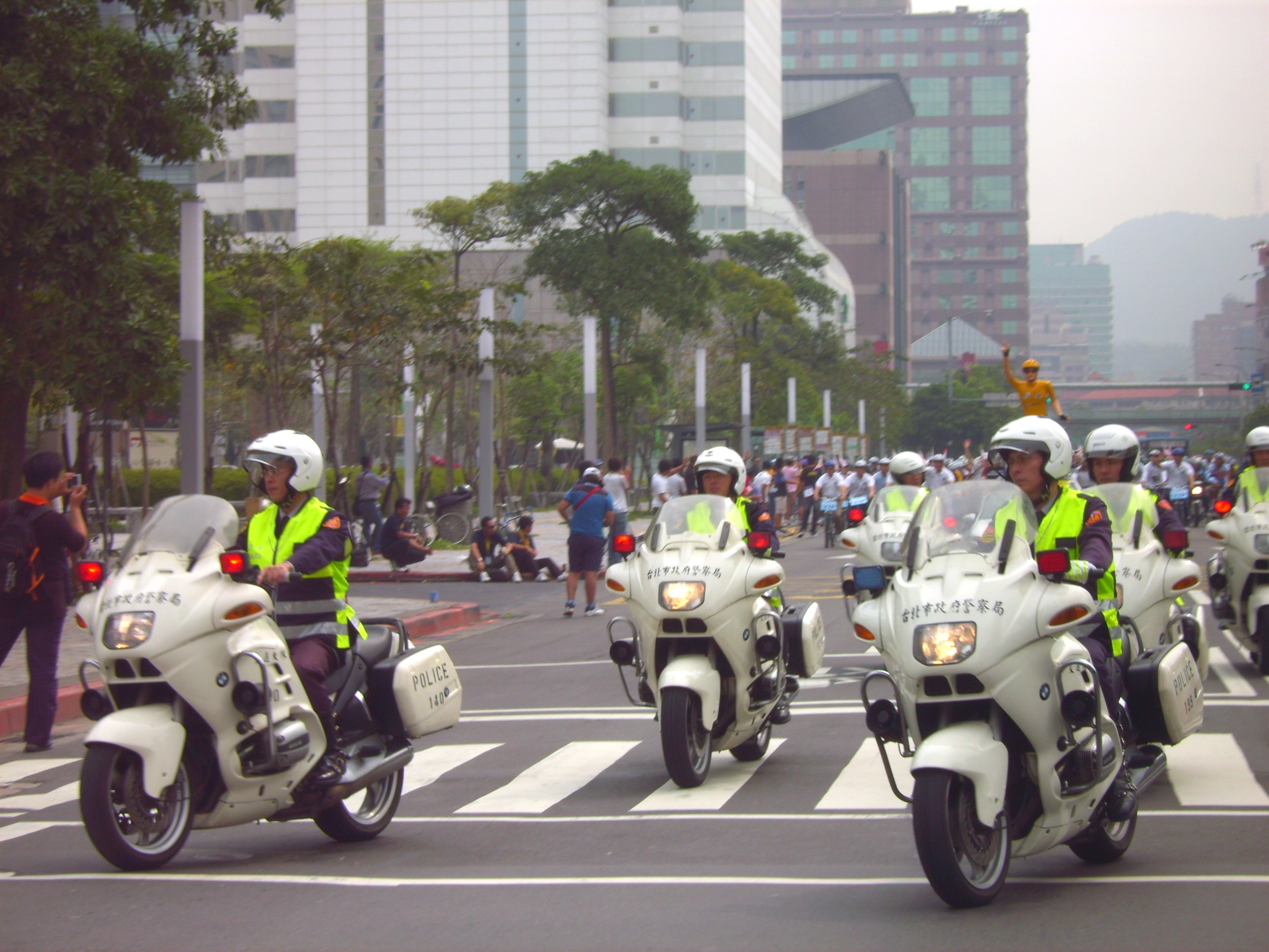 Tour de Taiwan 2007: For safety of the VIPs' lead-riding, polices should be in front of the riding queue.